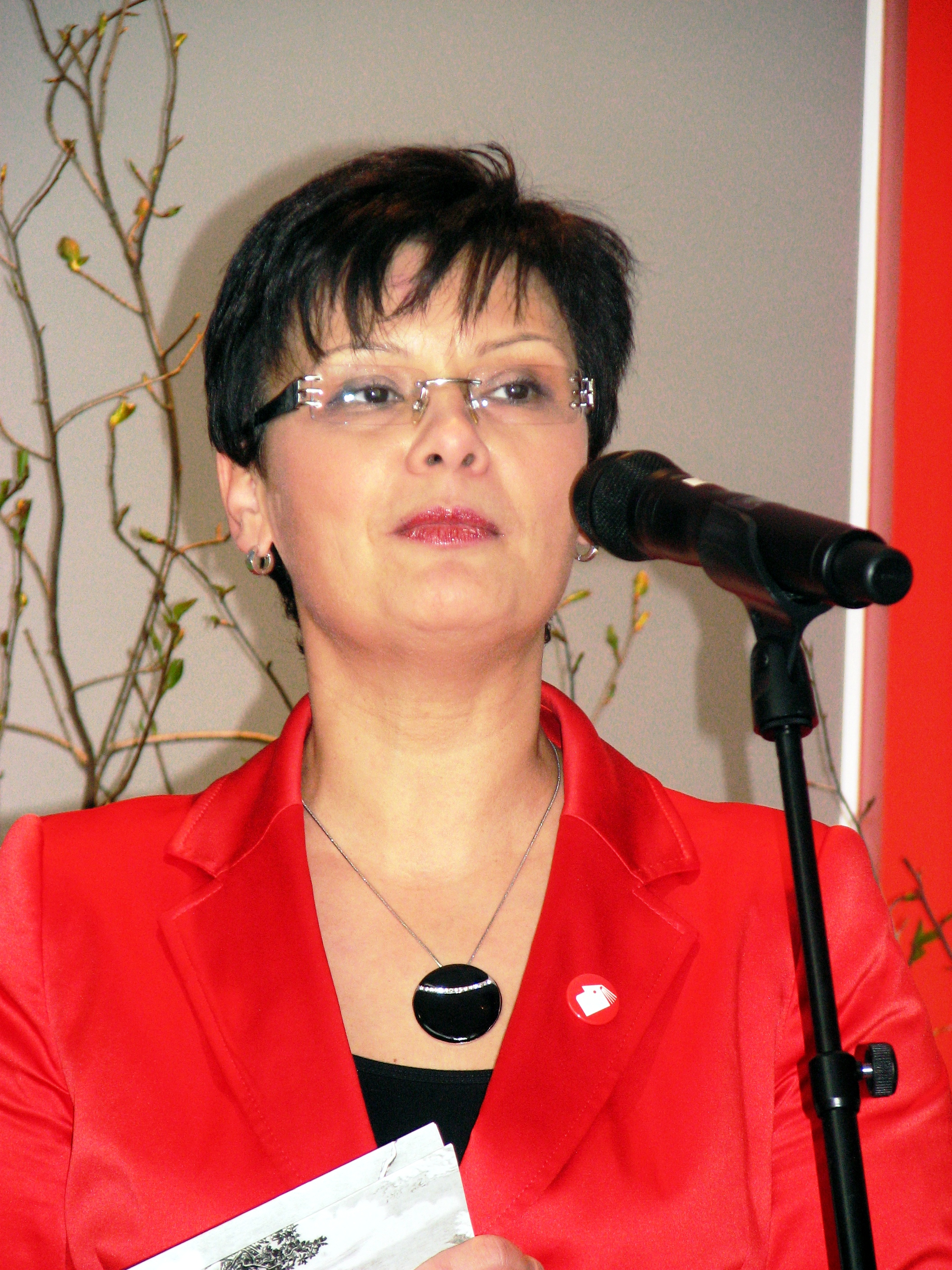 Laine Randjärv (born 30 July 1964 in Moscow, Russia) is an Estonian politician from the Reform Party.